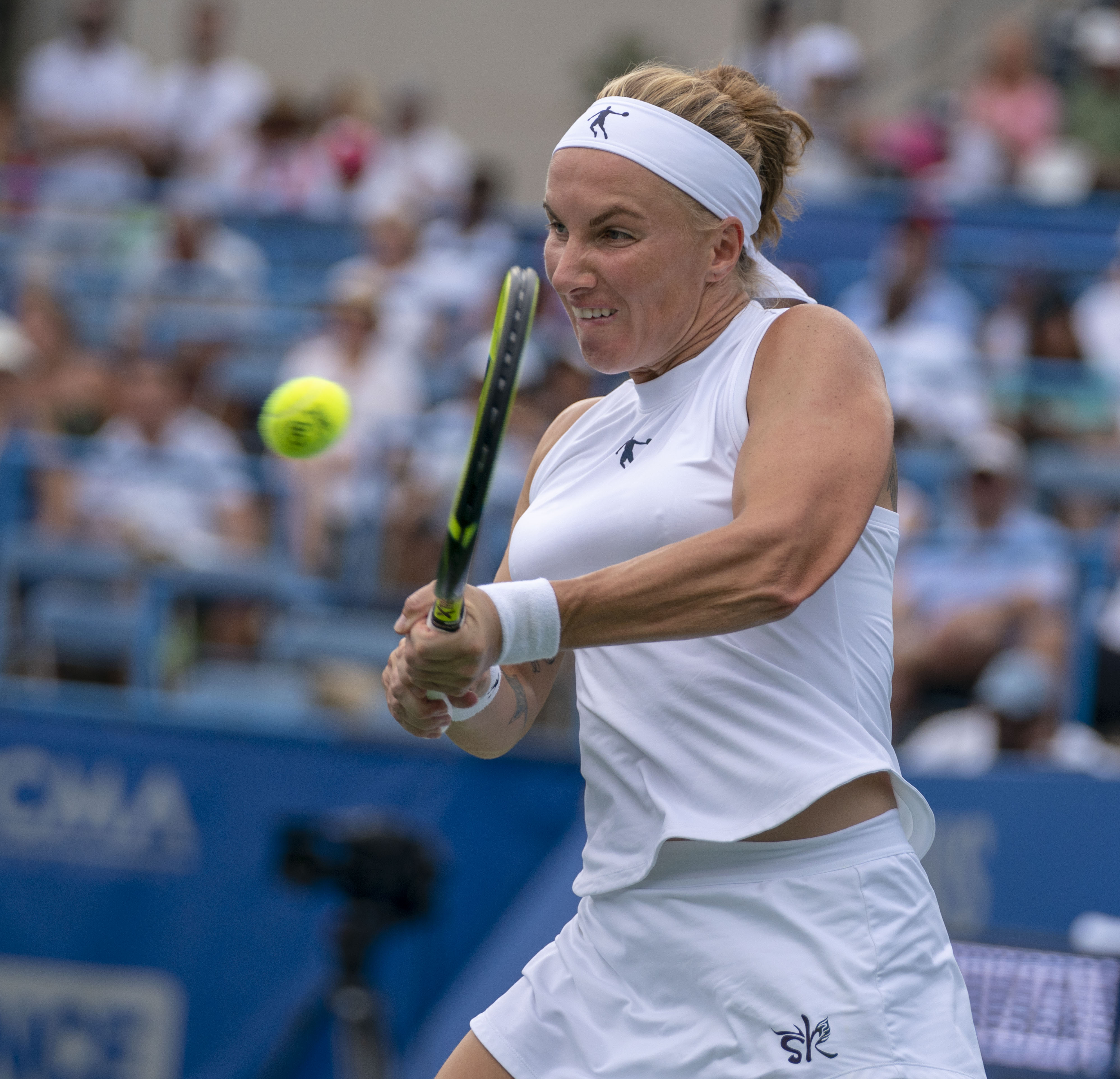 2018 Citi Open Tennis Finals